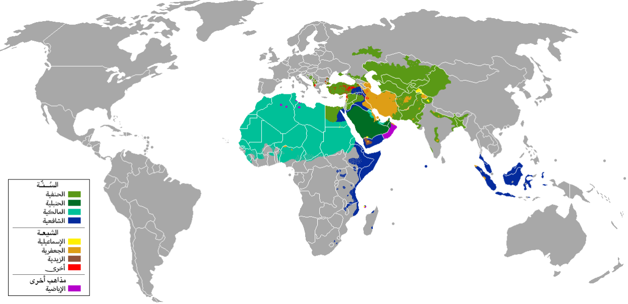 The main Islamic madhhab's (schools of law) of Muslim countries or distributions (Arabic)